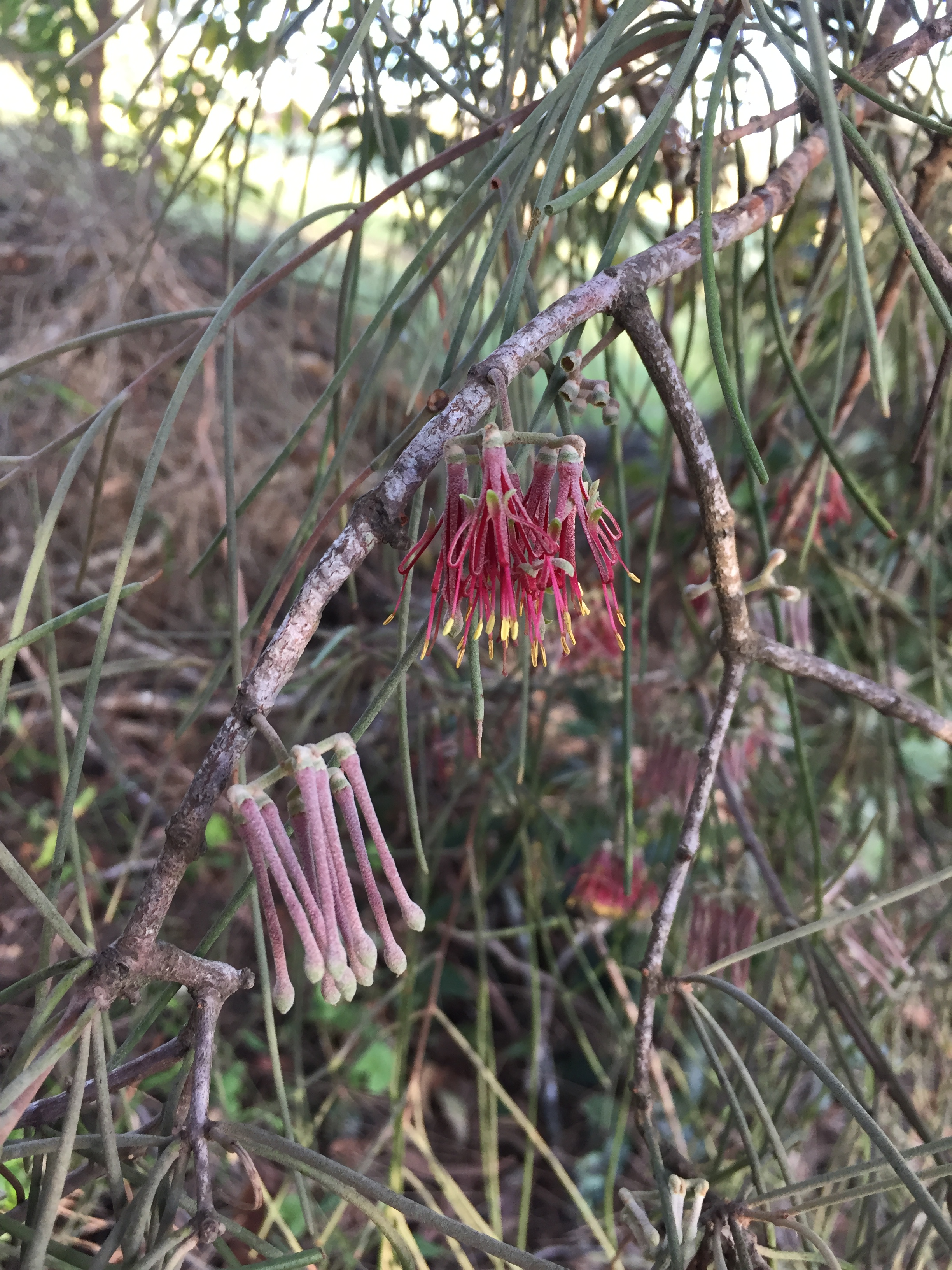 Flower of Amyema cambagei to be used on Amyema cambagei article